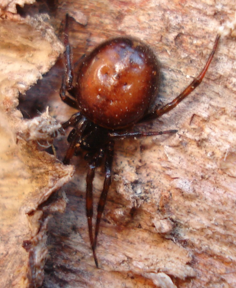 Steatoda bipunctata Двуточечная стеатода (Steatoda bipunctata)